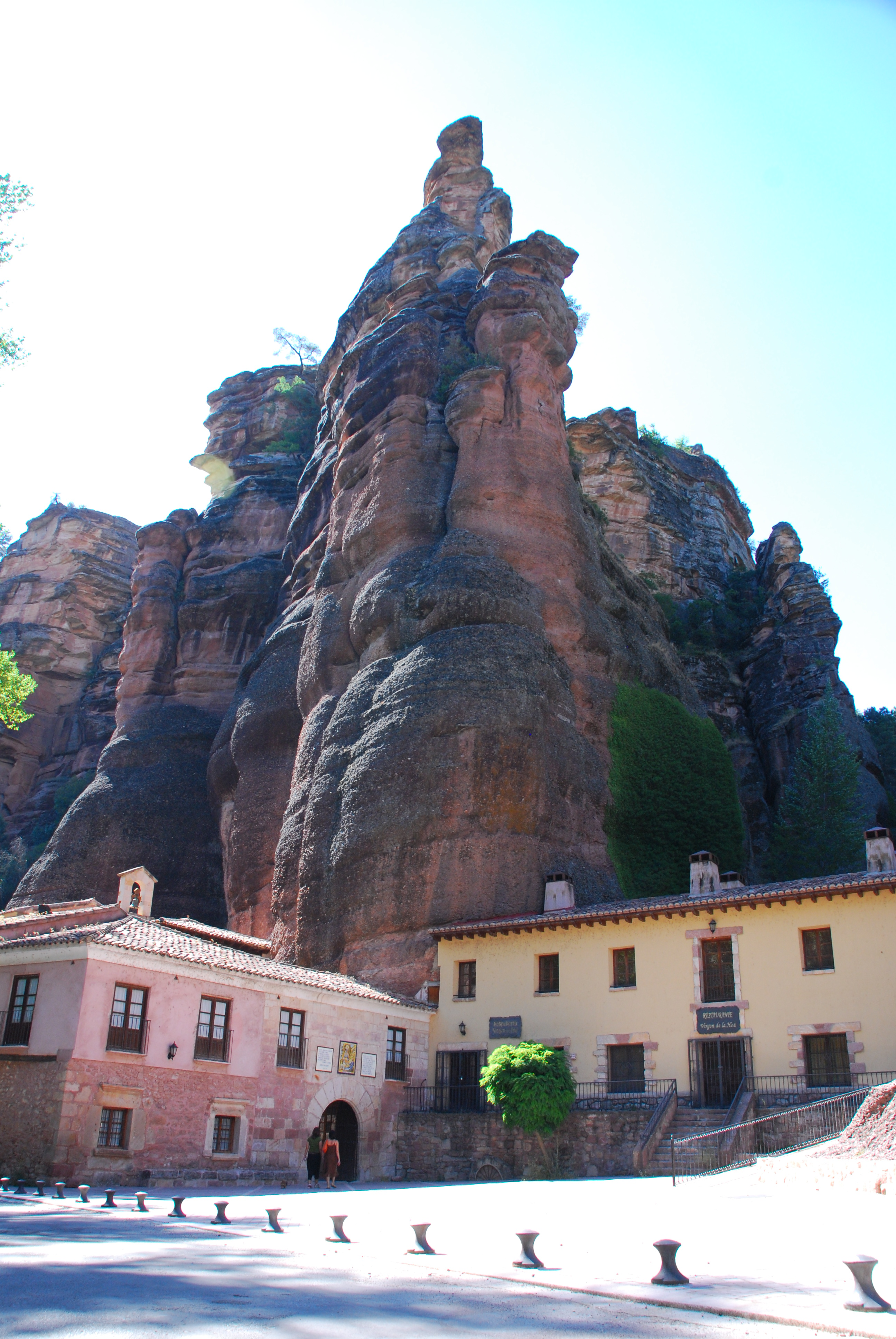 Sanctuary of Virgen de la Hoz, in Ventosa, Corduente, Guadalajara, Spain.